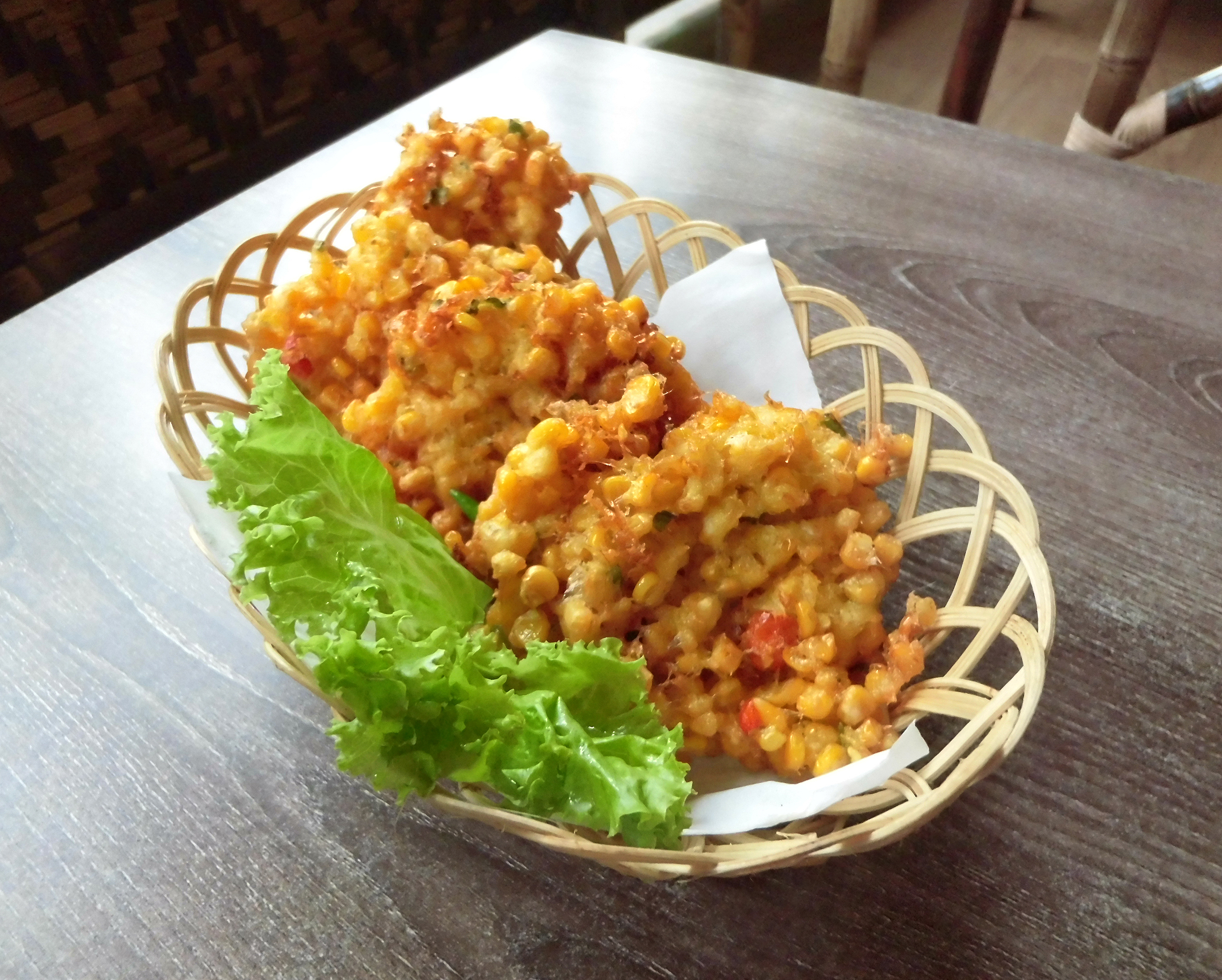 Freshly fried hot and crispy Perkedel Jagung, Indonesian corn fritter, served in Saoenk Kito restaurant in Grogol, West Jakarta, Indonesia.